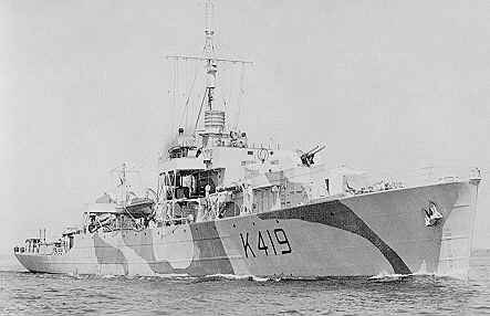 His Majesty's Canadian Ship "HMCS KOKANEE" - K419 - WW2 RIVER Class Frigate Laid Down: 25-Aug-43, Launched: 27-Nov-43, Commissioned: 6-Jun-44 Paid off 21-Dec-1945